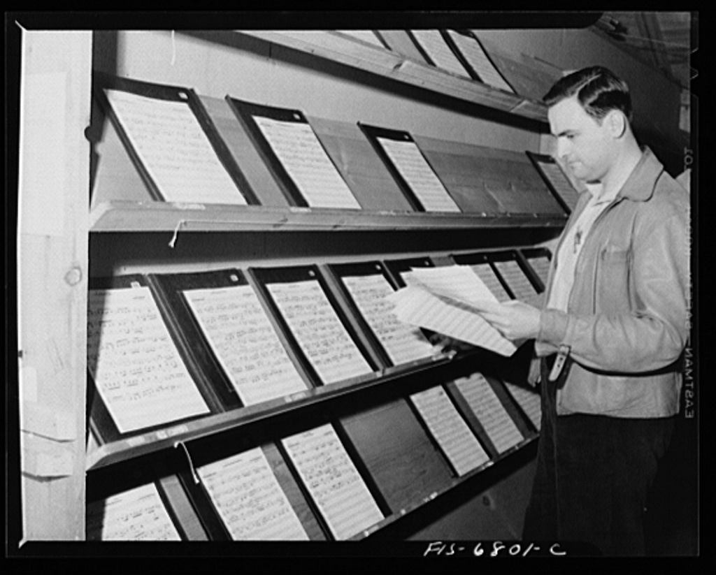 Title: Interlochen, Michigan. National music camp where 300 or more young musicians study symphonic music for eight weeks each summer. Score sheets are distributed on racks in the music library Creator(s): Siegel, Arthur S., photographer Date Created/Published: 1942 Aug.? Medium: 1 negative : safety ; 4 x 5 inches or smaller. Repository: Library of Congress Prints and Photographs Division Washington, D.C. 20540 Part of: Farm Security Administration - Office of War Information Photograph Collection (Library of Congress)